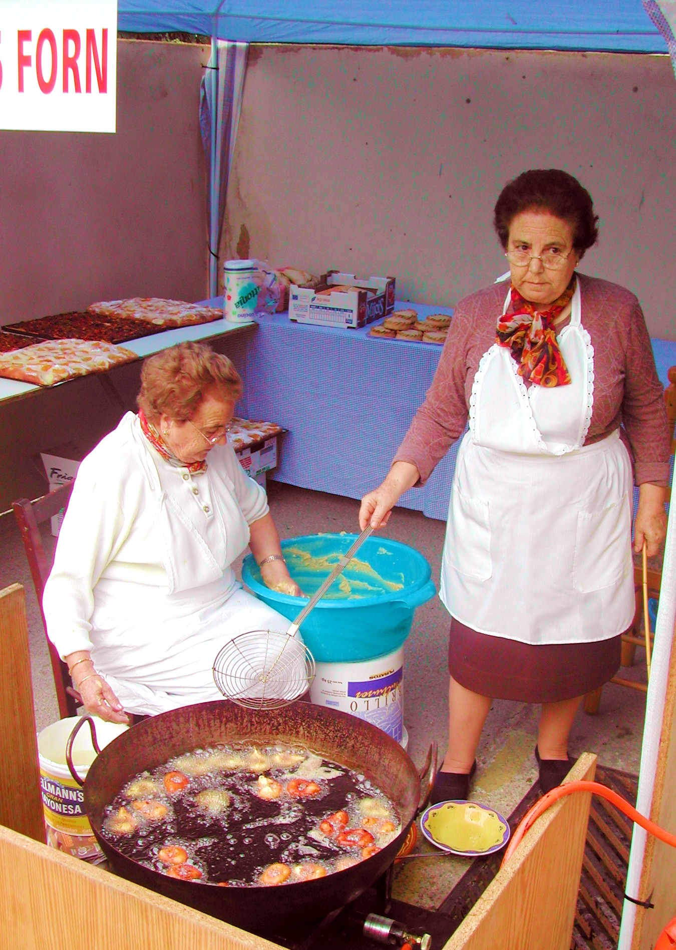 Mistresses cooking tradicional potatoe fritters,Mallorca.